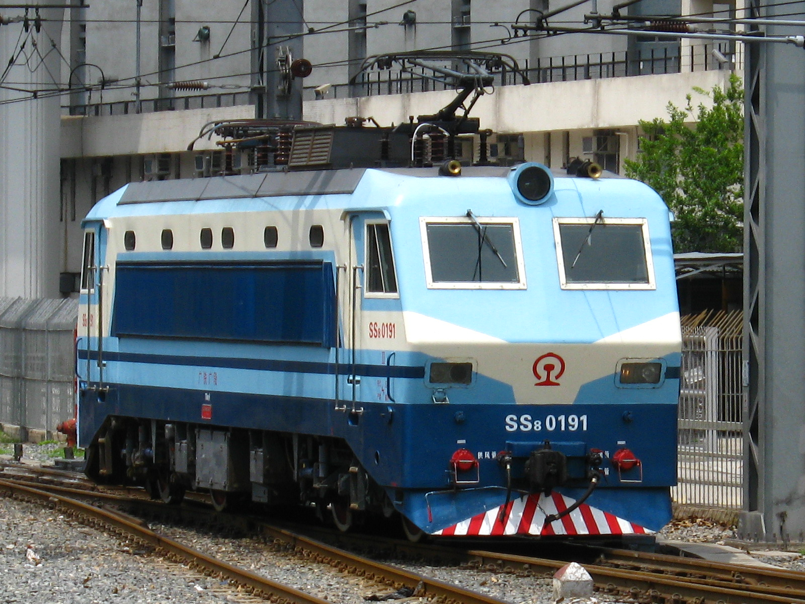 Electric loco SS8-0191 at Hunghom Station